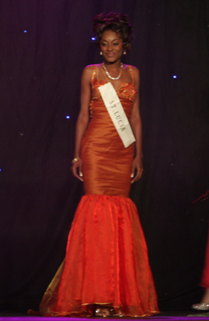 Miss St Lucia Joy Ann Biscette during Miss World 08